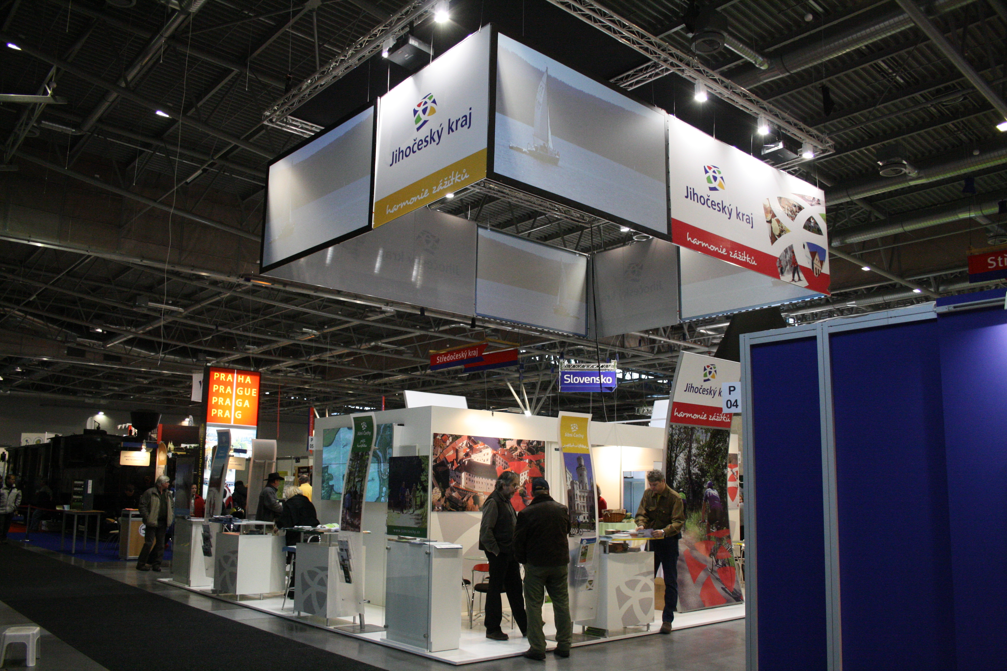 Presentation of various touristic destinations of Czech Republic.